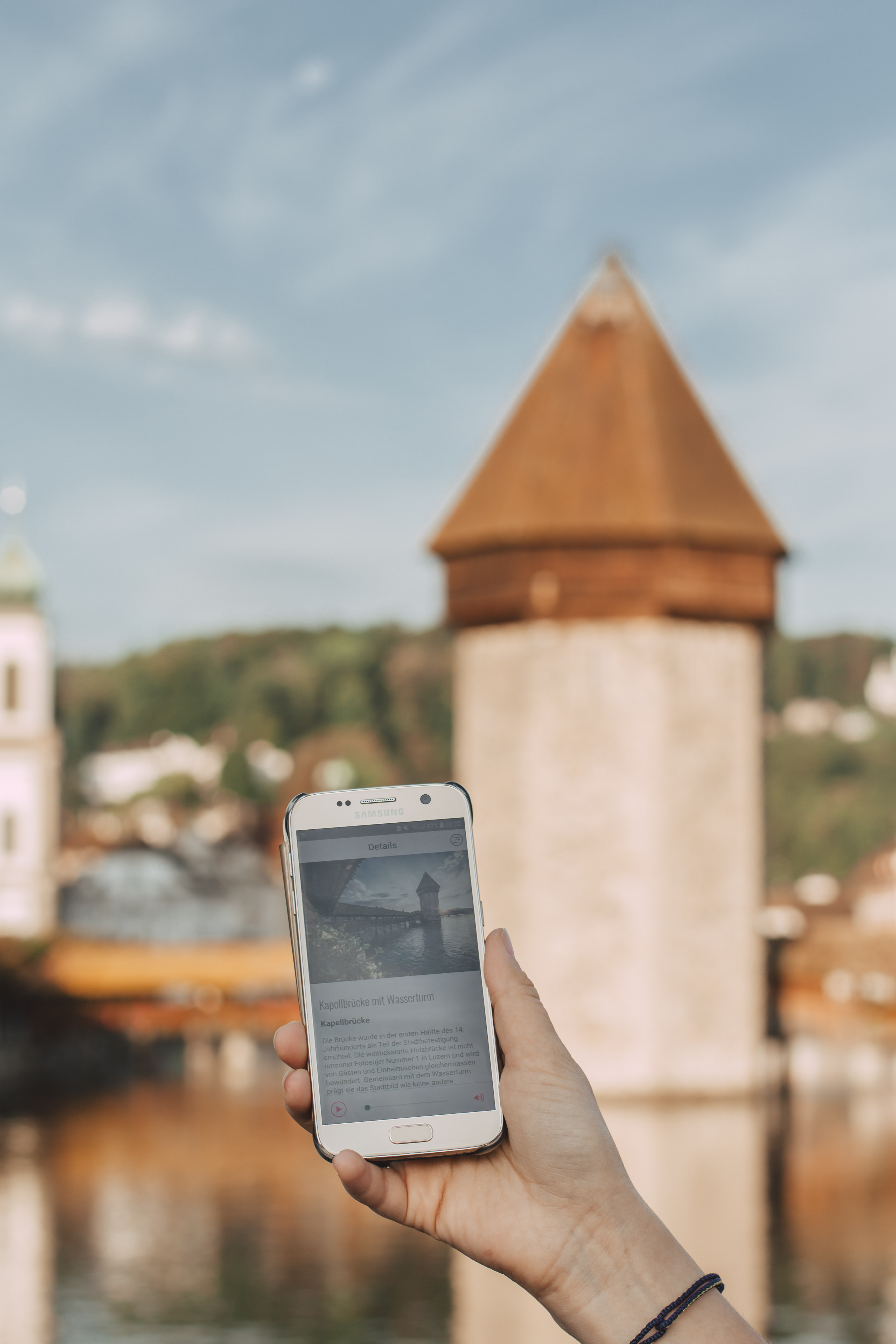 Official Lucerne Audio Tour